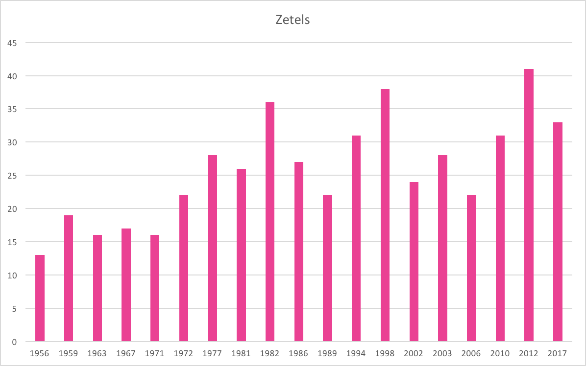 zetelaantal vvd actueel